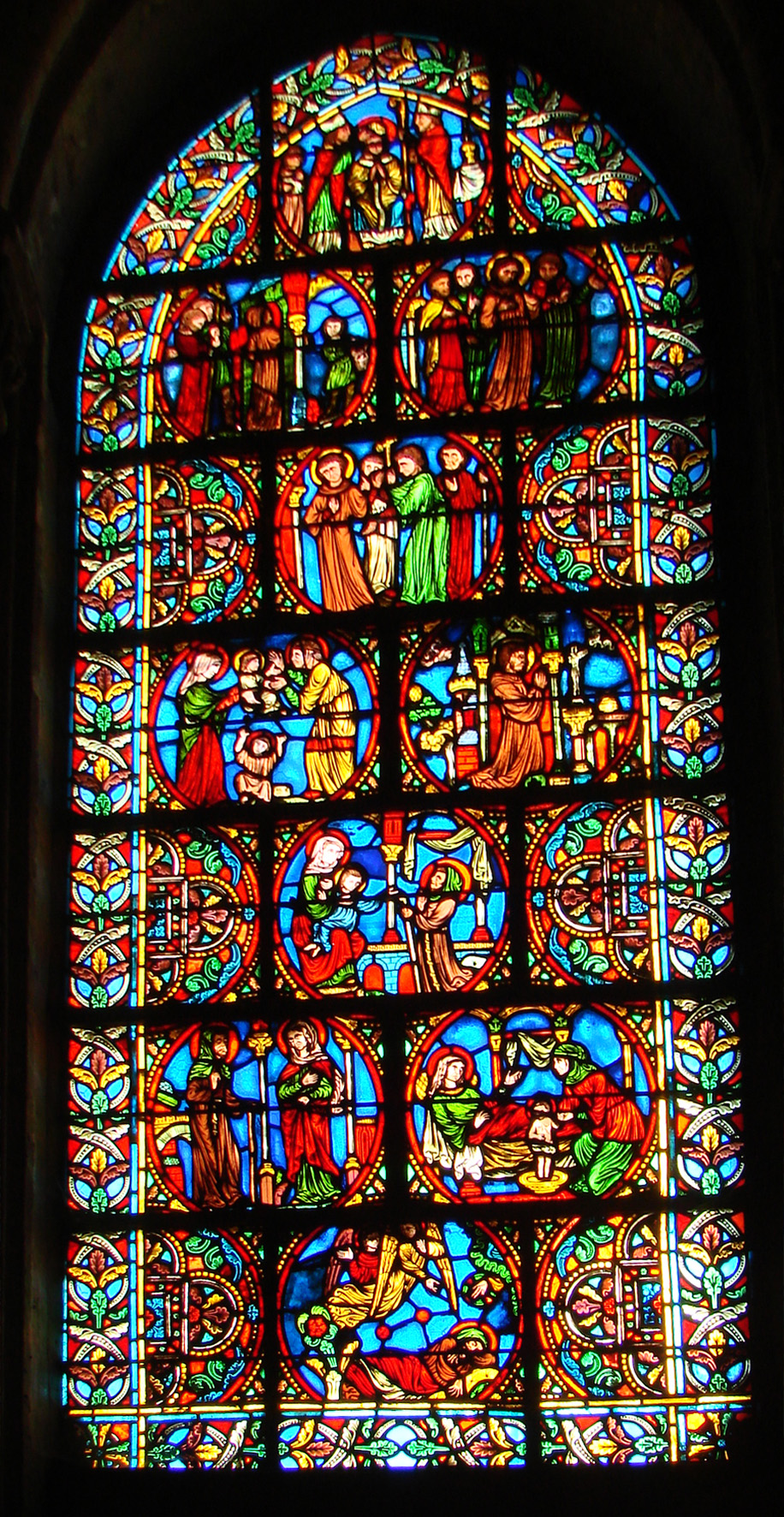 Stained glass window,12th century,Saint-Remi basilica, Reims,France.